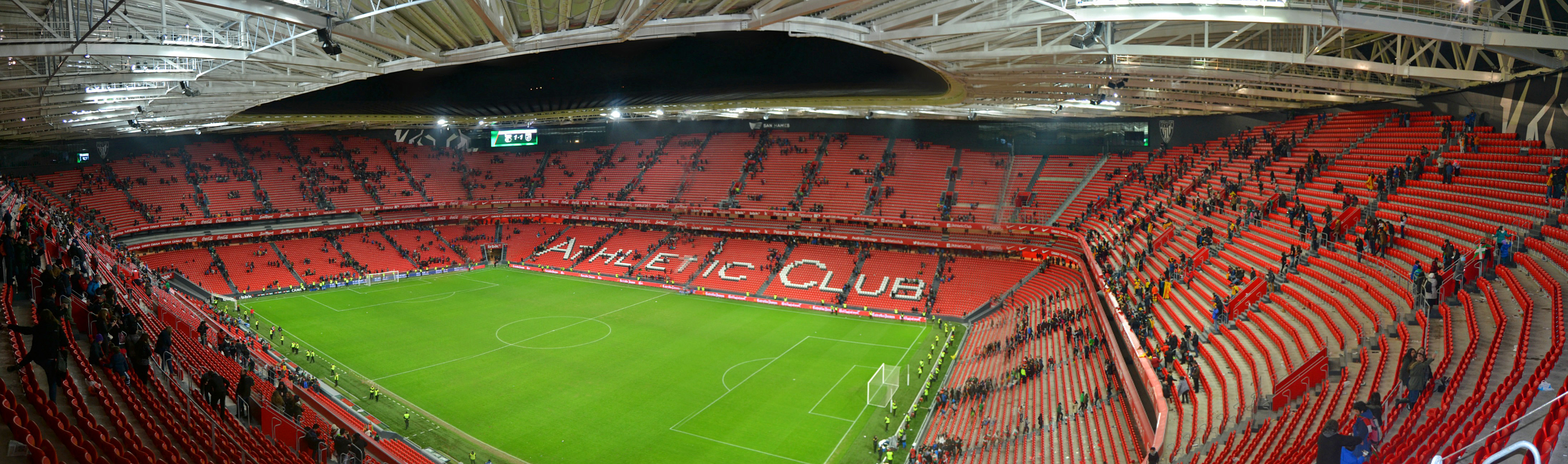 Before Basque National Football Team - Catalan National Football Team match. 28th December 2014. Bilbao, Basque Country.